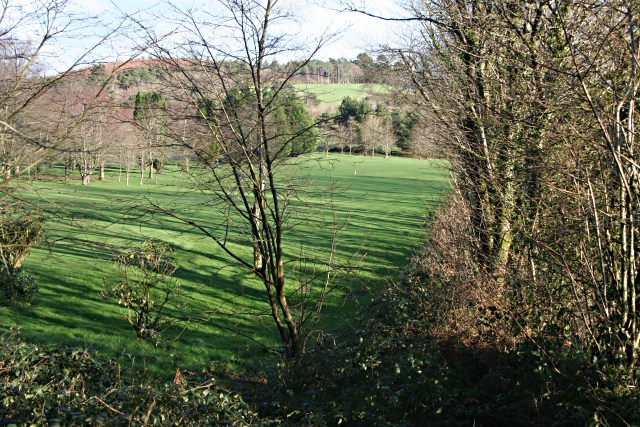 Launceston Golf Course Seen through the hedge in the southwest corner of the course, this activity takes up most of the southern quarter of this grid square.